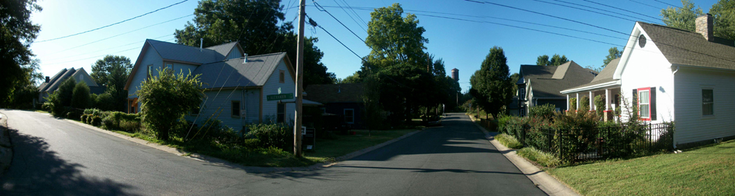 North Charlotte's Neighborhood in Mecklenburg Mill Village Houses